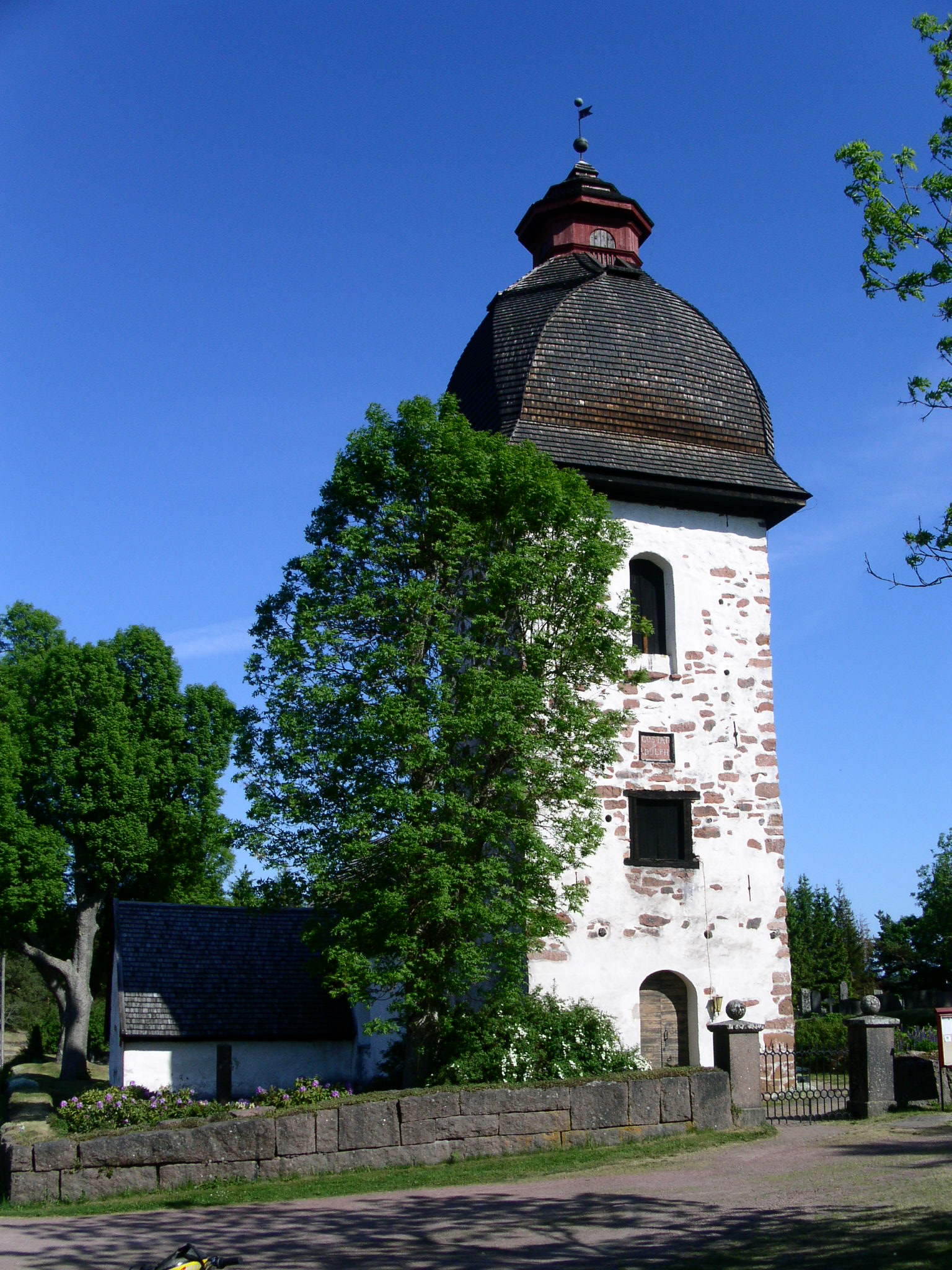 Vårdö church, Åland, from west side